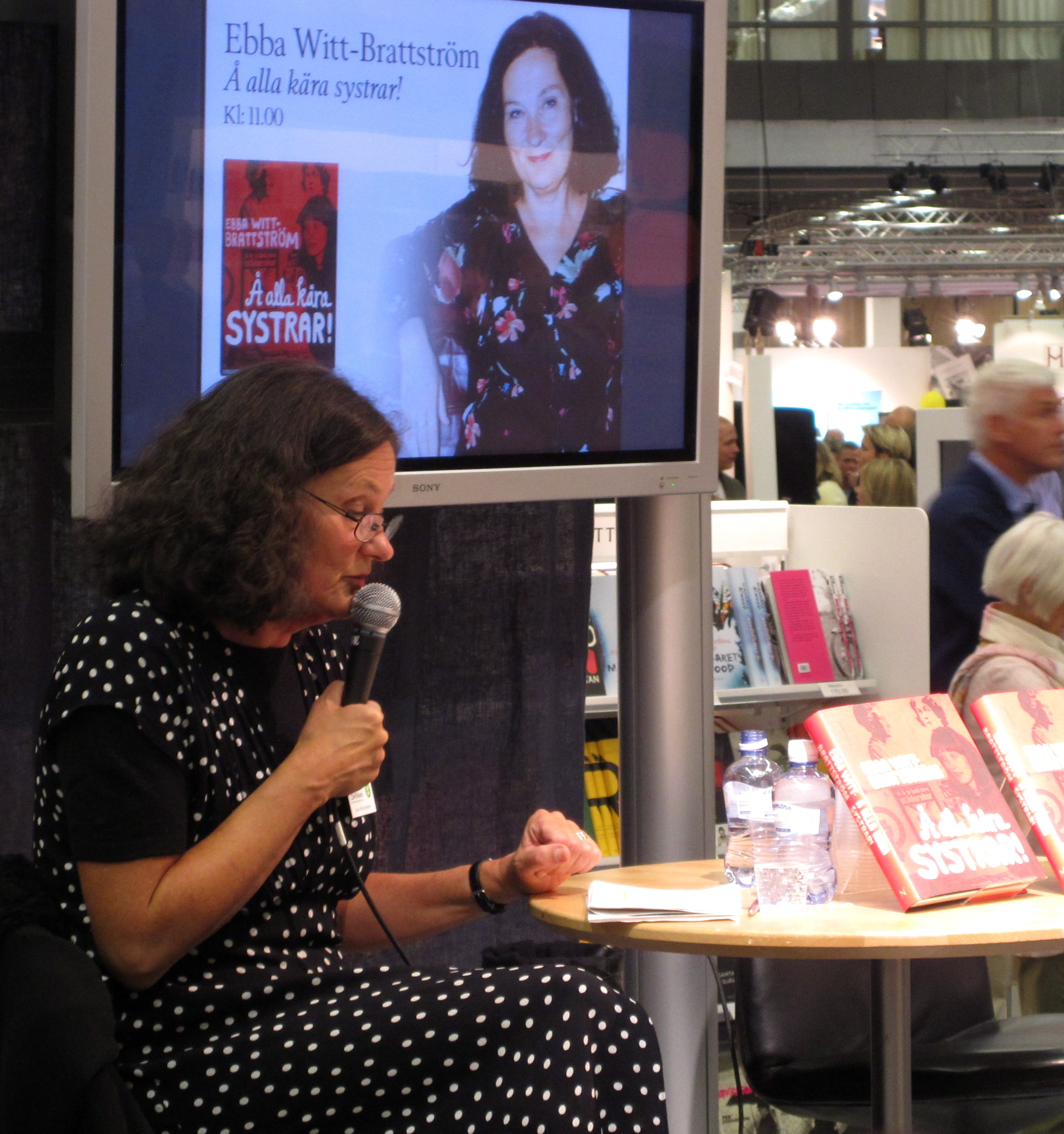 Ebba Witt-Brattström (born 1953), Swedish professor of literature. lity. Photo taken at the Gothenburg Book Fair.